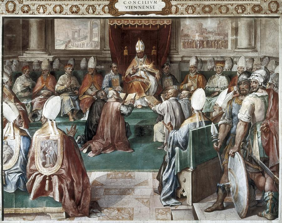 Council of Vienne (1311-1312)